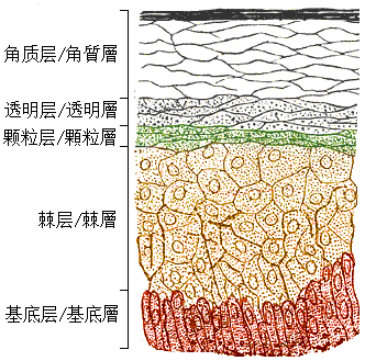 Diagram of the layers of the epithelial skin layer: the epidermis.